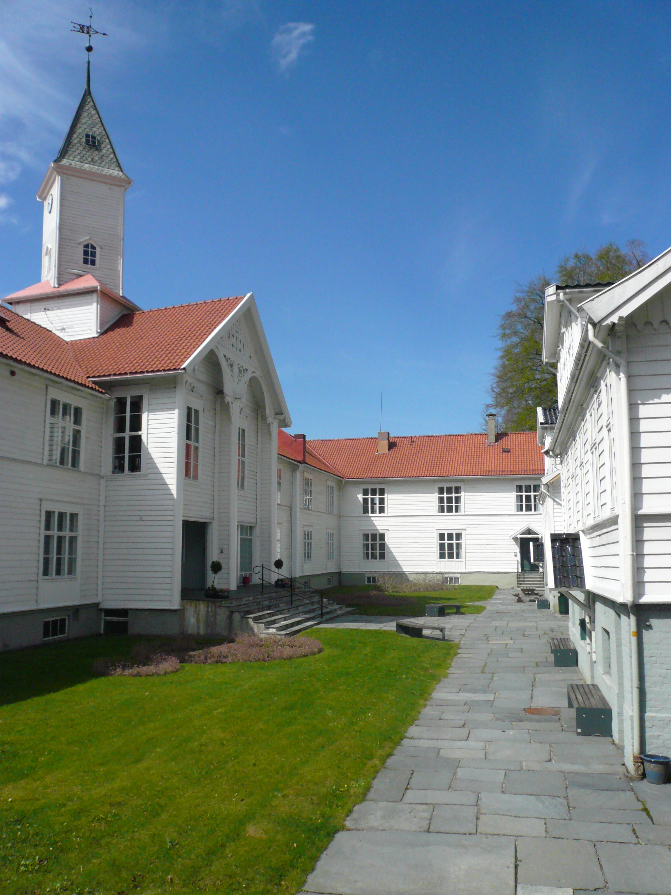 Pleiestiftelsen, Bergen, Norway